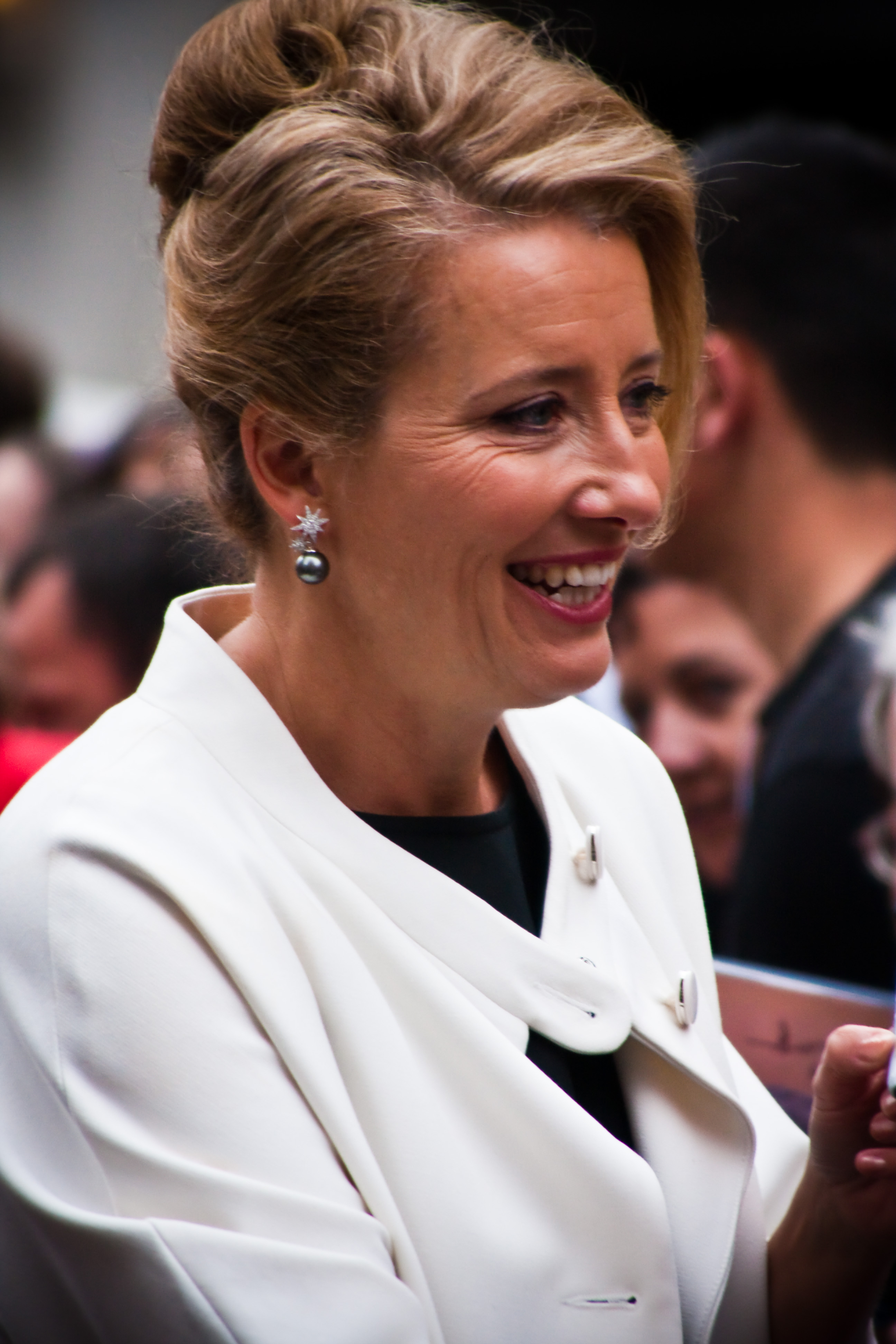 Emma Thompson signing autographs at the premiere of Last Chance Harvey